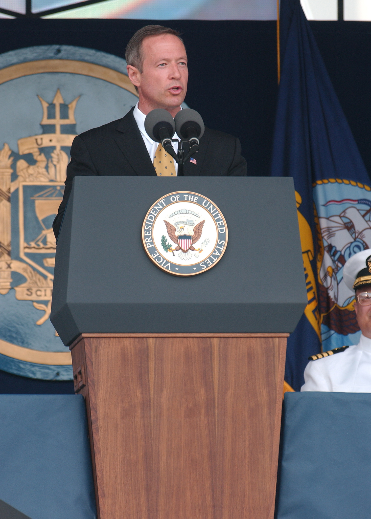 ANNAPOLIS, Md. (May 28, 2010) Maryland Governor Martin J. O'Malley gives remarks during the U.S. Naval Academy 2010 graduation and commissioning ceremony. The Class of 2010 graduated 755 ensigns and 257 Marine Corps 2nd lieutenants at Navy-Marine Corps Memorial Stadium in Annapolis, Md. (U.S. Navy photo by Mass Communication Specialist 2nd Class Alexia Riveracorrea/Released)